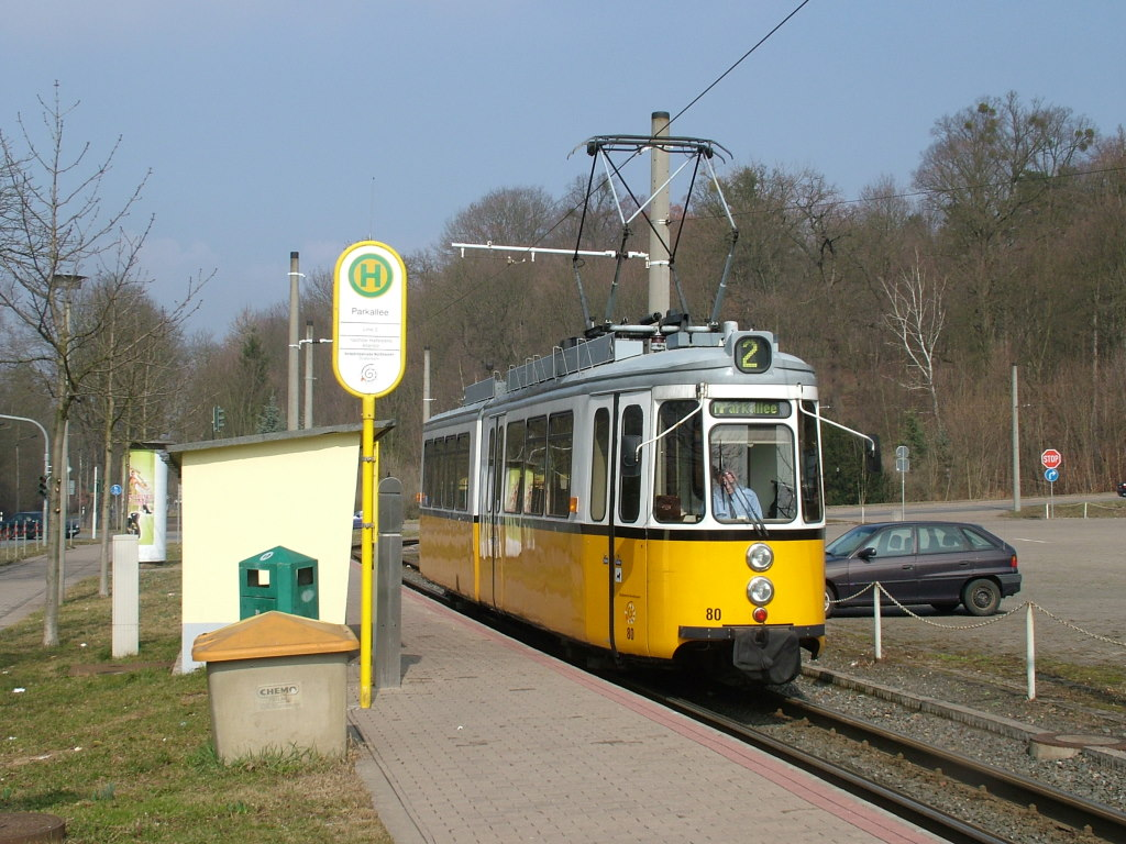 Tram Nordhausen, Germany: car 80 (ex Stuttgart) at Parkallee station, 2005-03-23